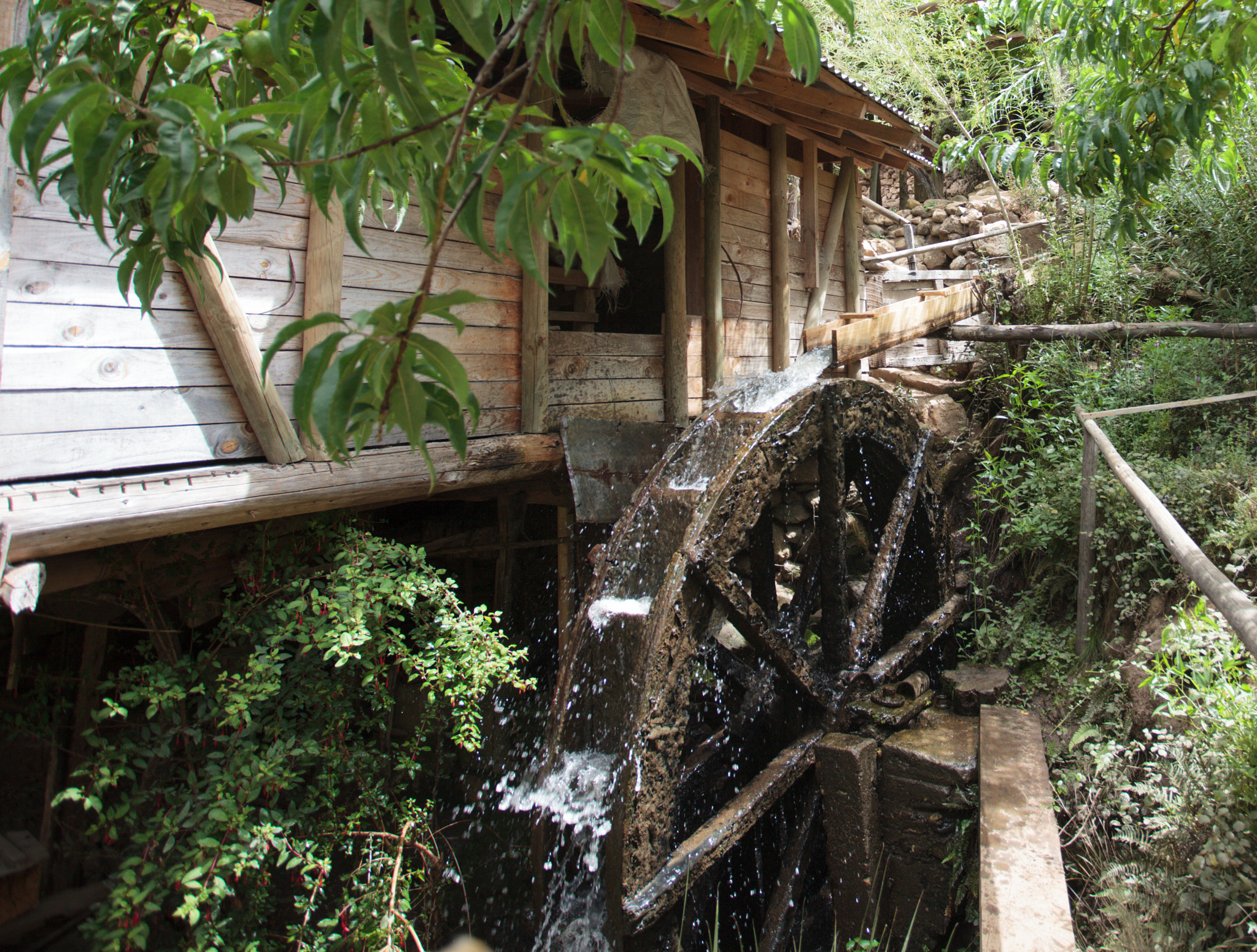 500px provided description: A more than 100 year old granary wheel still in use today! [#Chile ,#Mill ,#Farming ,#Water Wheel]